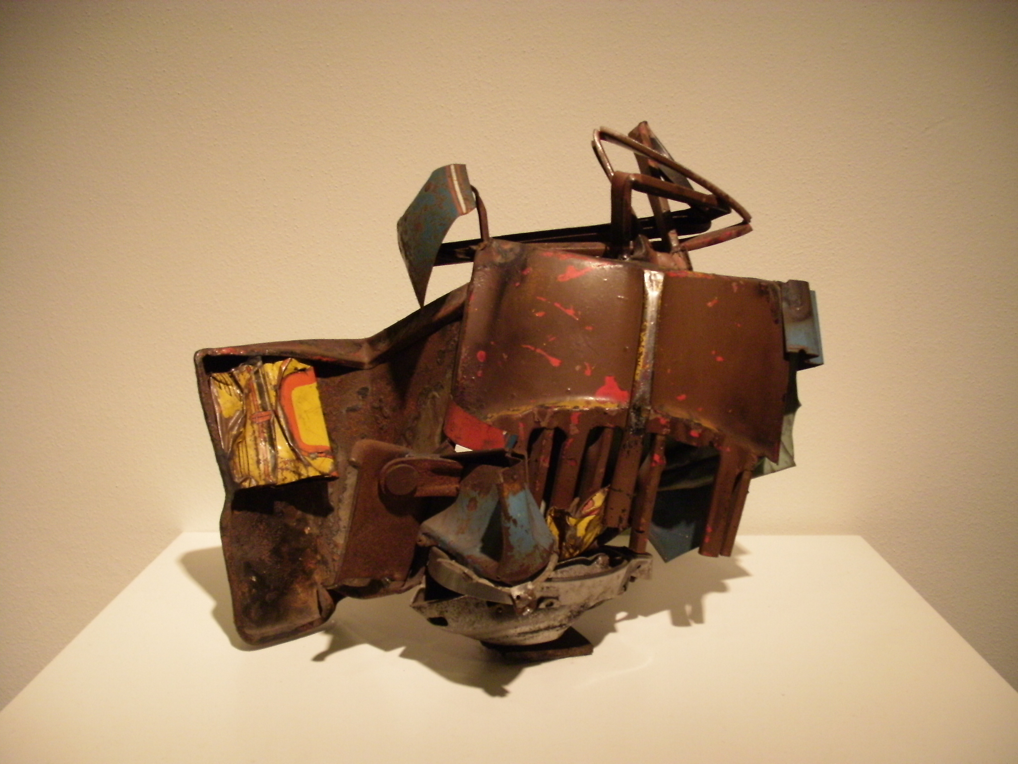 S by John Chamberlain, metal, 1959 (43.8 x 54.6 x 32.1 cm); sold to Joseph H. Hirshhorn in 1963, 1966 gifted to the Hirshhorn Museum and Sculpture Garden, Washington, DC and since then part of its exhibition.